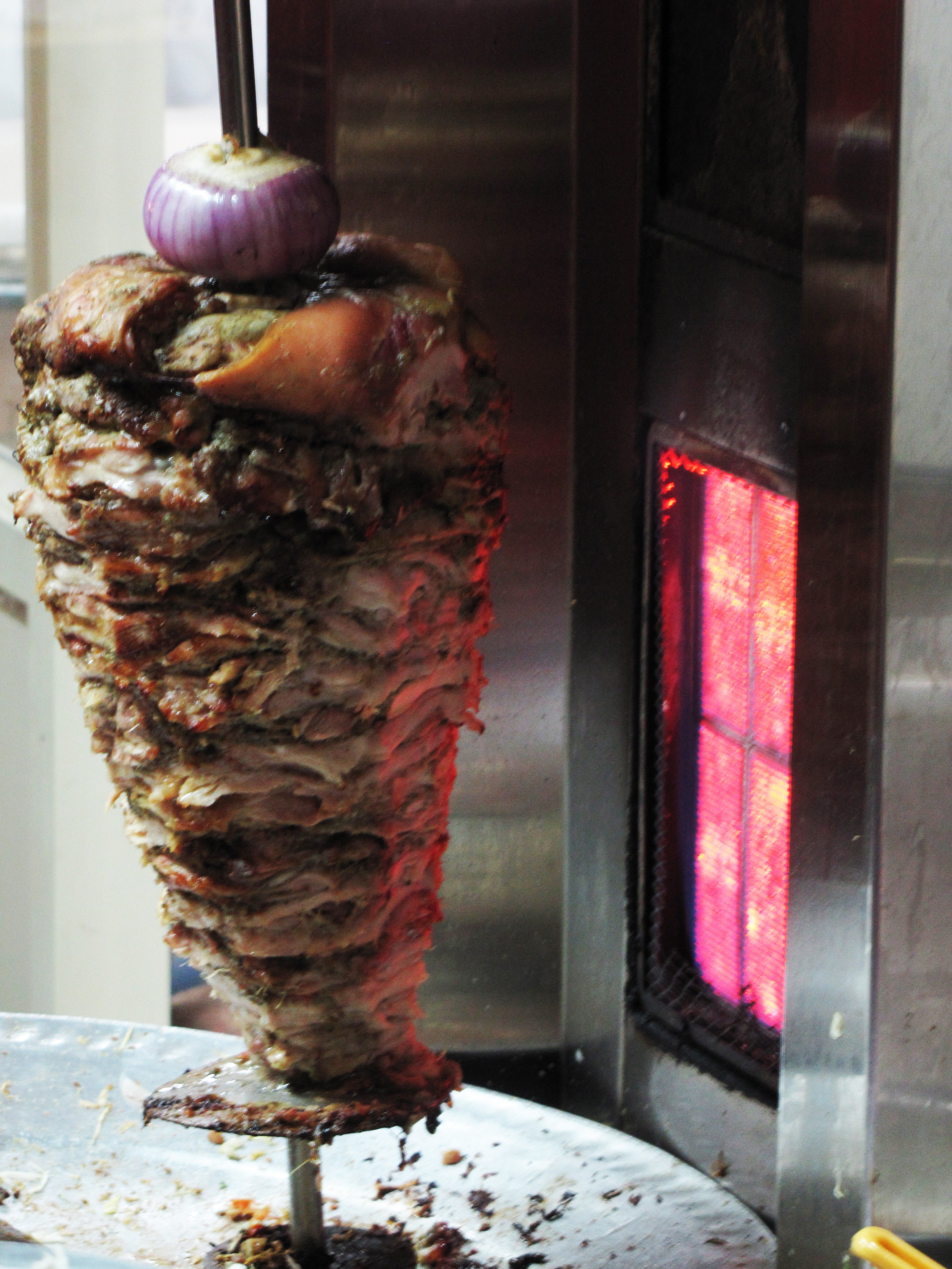 Shawarma is getting ready. From Mangalore